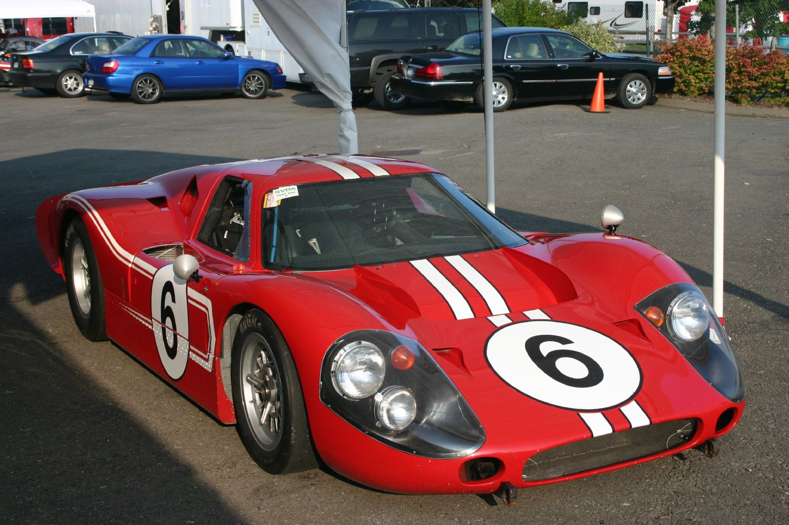 1967 Ford GT40 Mk IV at 2004 Watkins Glen SVRA (paddock)